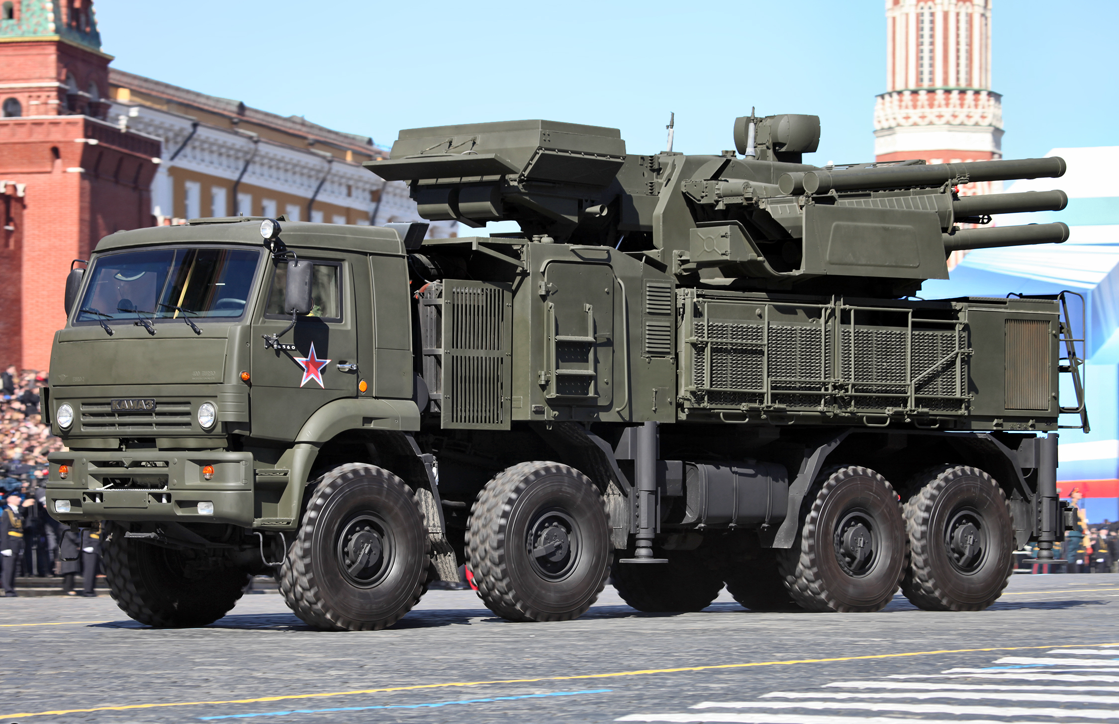 96K6 Pantsir-S1 TELAR